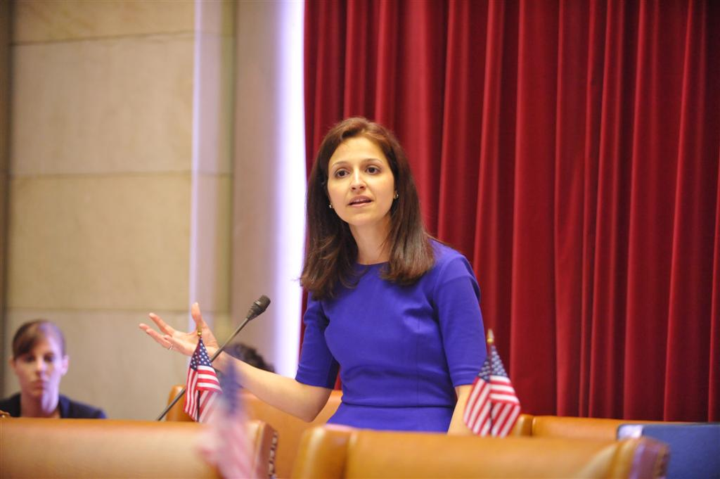 Simotas speaks out in support of the Community Full Disclosure Act during floor debate in the Assembly chamber.